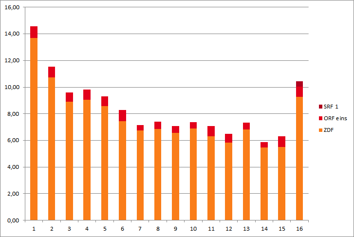 viewing figures diagram of the TV show “Wetten, dass..?” distributed by the TV station Zweites Deutsches Fernsehen since Markus Lanz is working as its presenter, divided in spectators in Germany and those in Austria